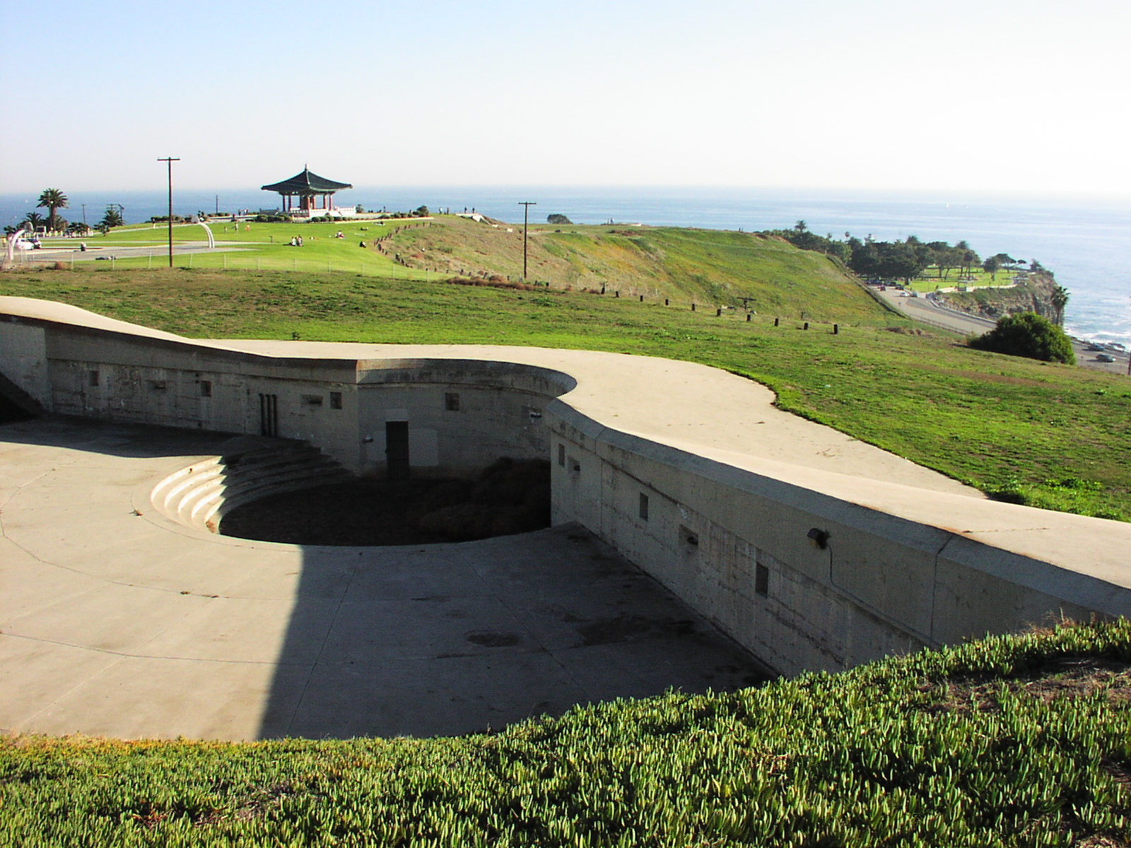 Battery Farley -- A former gun emplacement at Fort MacArthur overlooking Angels Gate Park, Los Angeles.